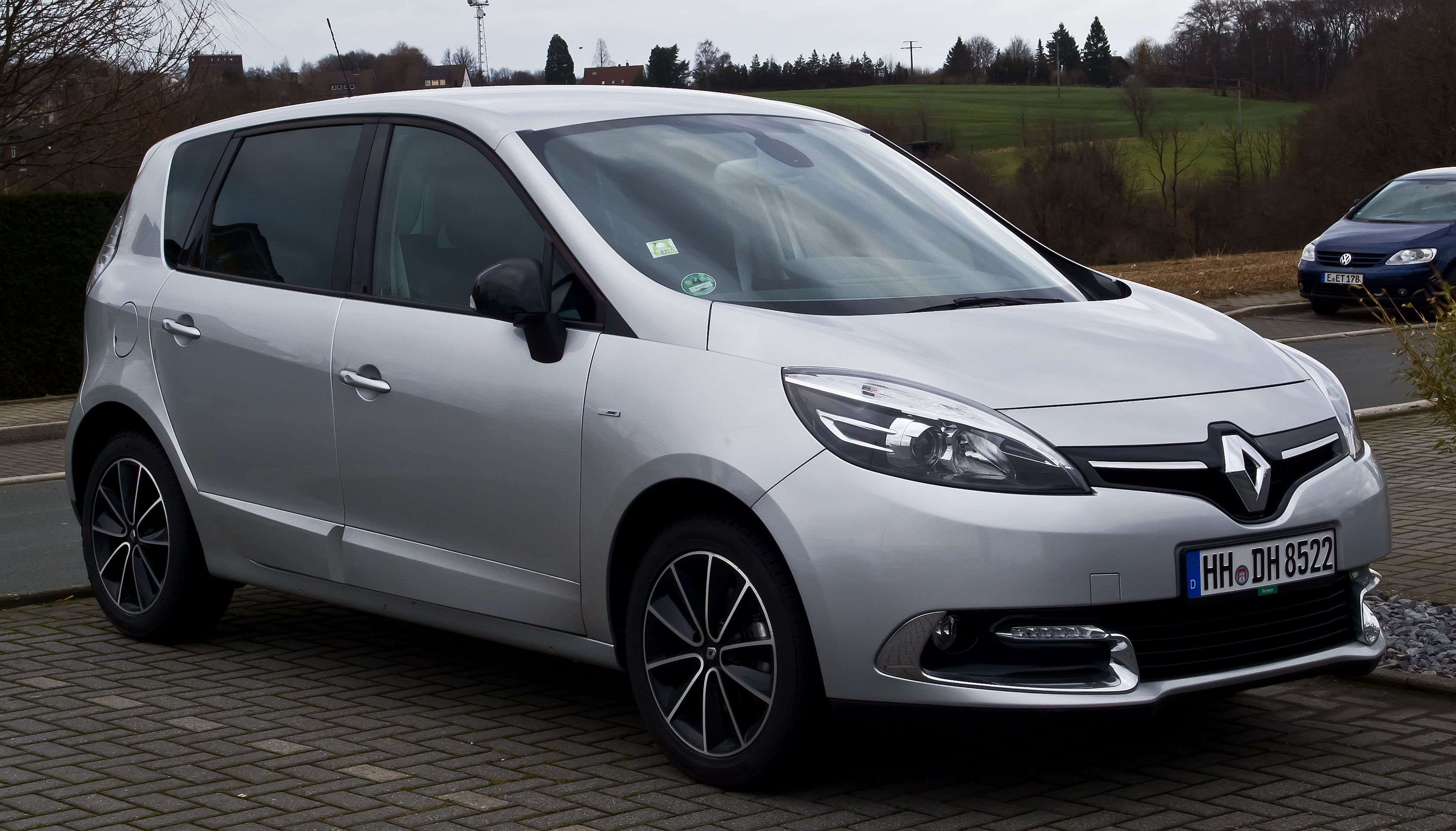 Renault Scénic Bose Edition ENERGY TCe 130 Start & Stop (III, 2. Facelift)